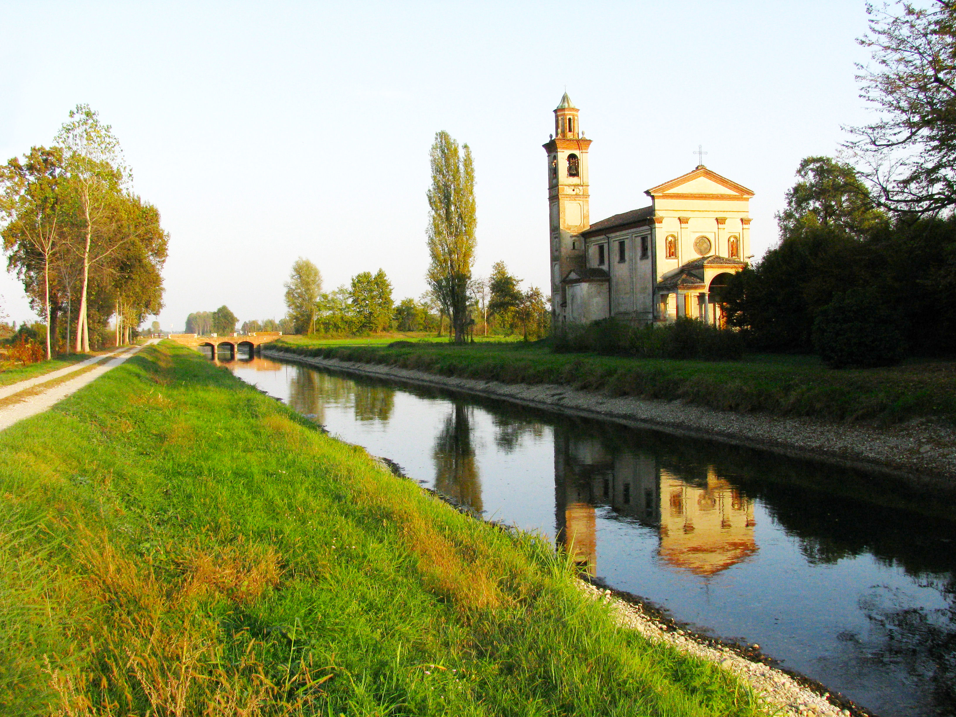 Church of S.Caterina - Moso/Bagnolo Cremasco